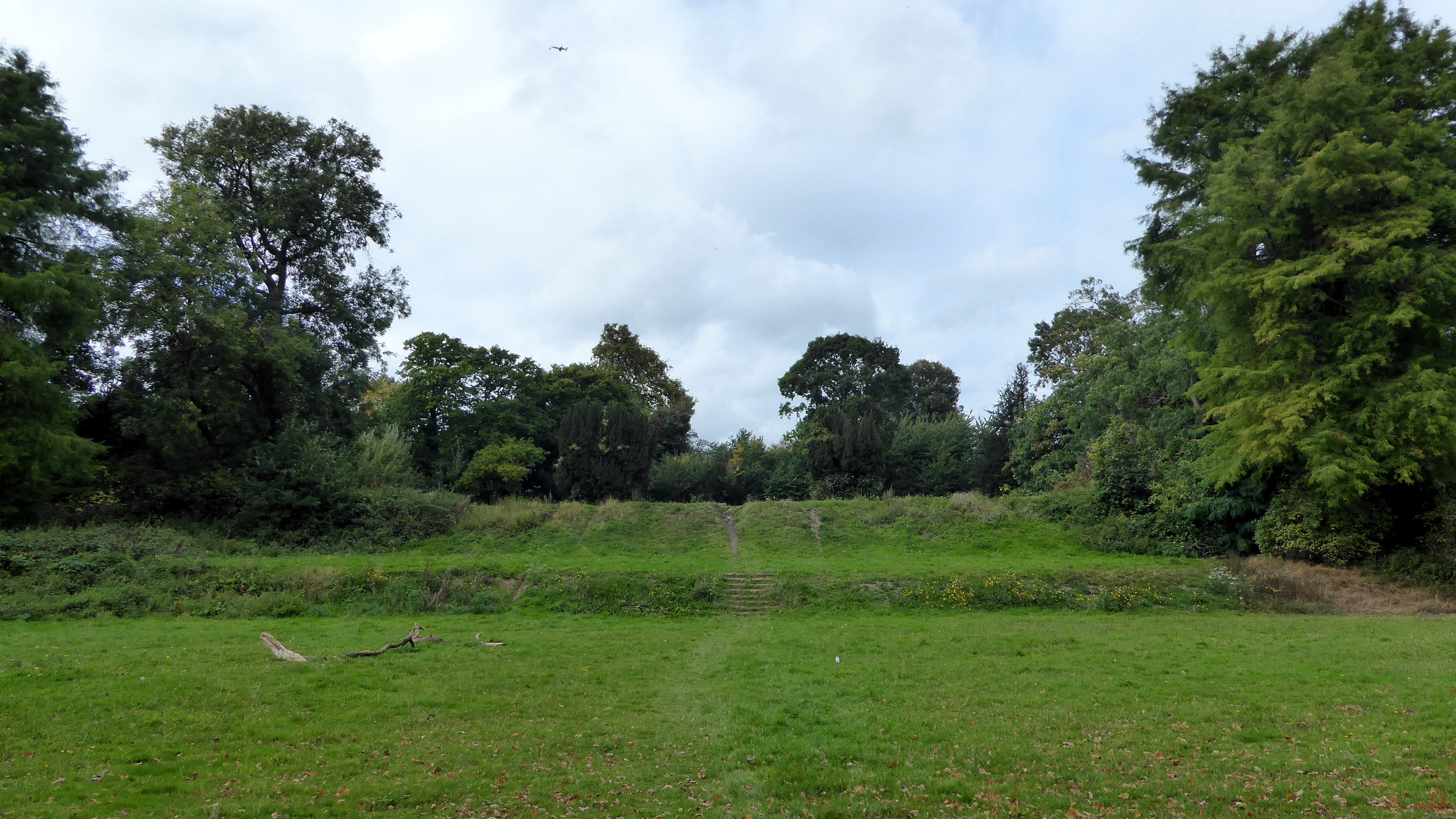 The location of Foots Cray Place, since demolished, in the London Borough of Bexley.